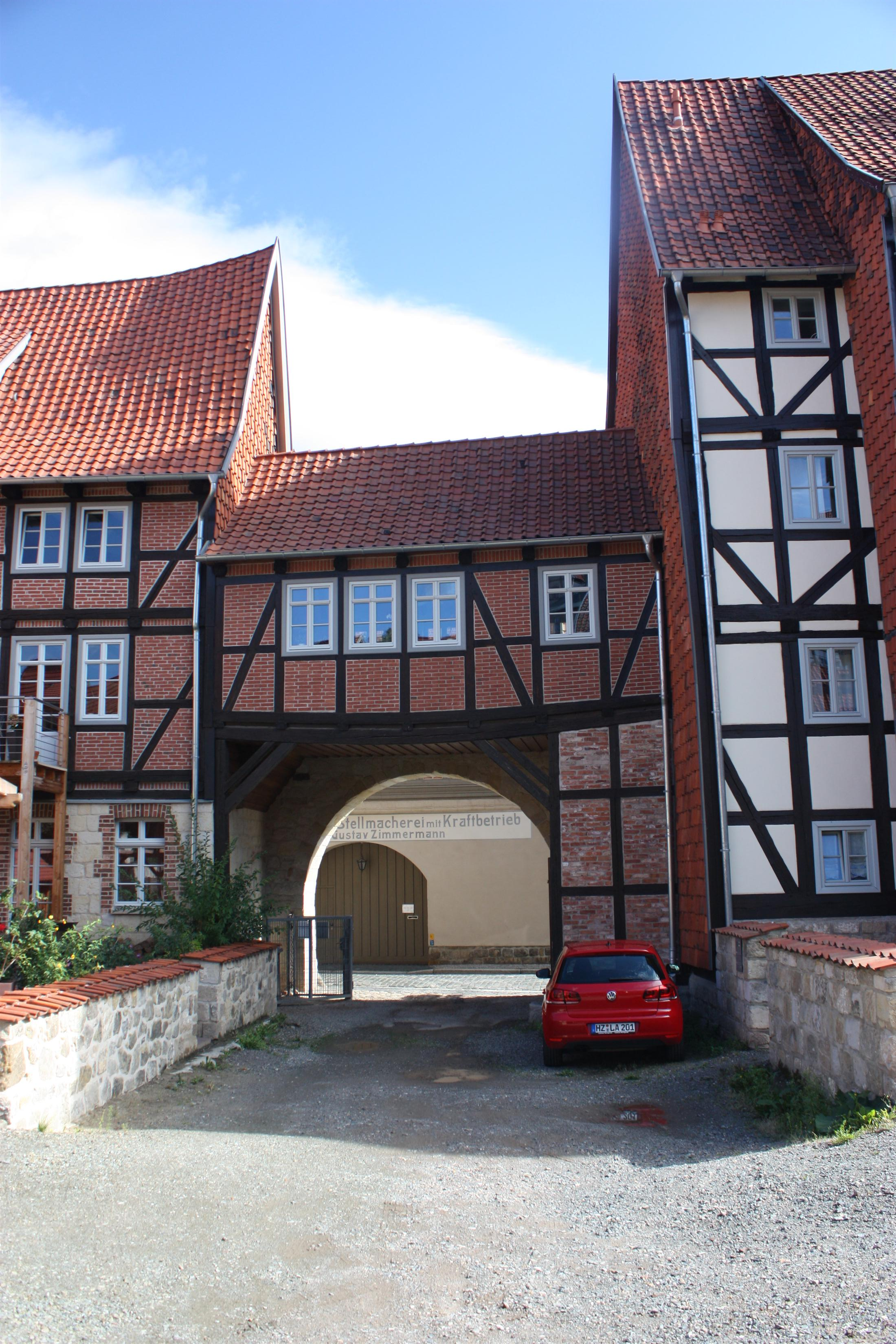 This is a photograph of an architectural monument.It is on the list of cultural monuments of Quedlinburg Quedlinburg Lange Gasse